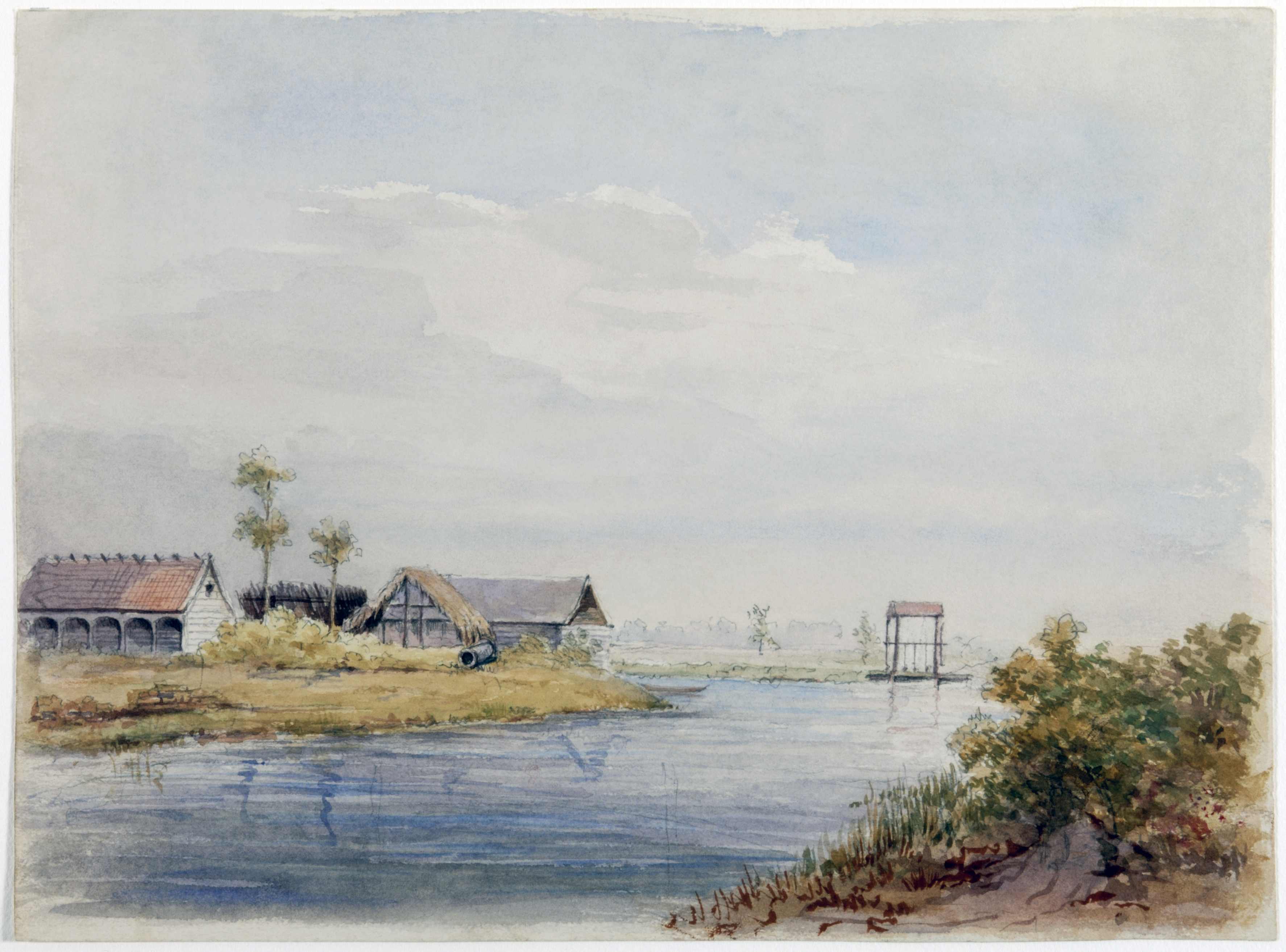 Water colour. Plantation building on the Coronie, on the sea coast of Suriname. This area was developed by the English and Scots with plantations from 1808, in the English period (1804-1816), Some of them stayed, other plantations were taken over by Dutch planters. It is unknown what plantation this is. We see some sheds and a sluice. Houses at the waterside in Coronie, probably plantation houses.